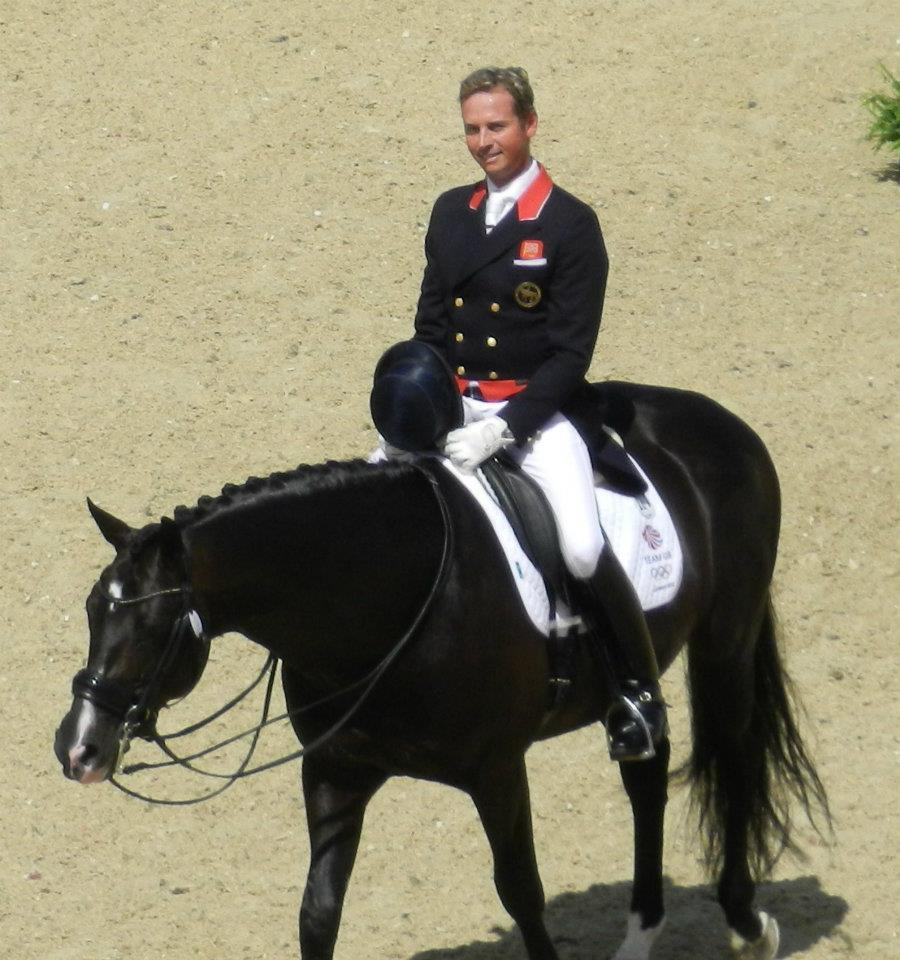 ChiShona: Carl Hester at the end of dressage during the 2012 Summer Olympic Games